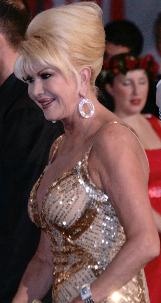 Ivana Trump at the Life Ball 2009, Rathaus, Vienna.